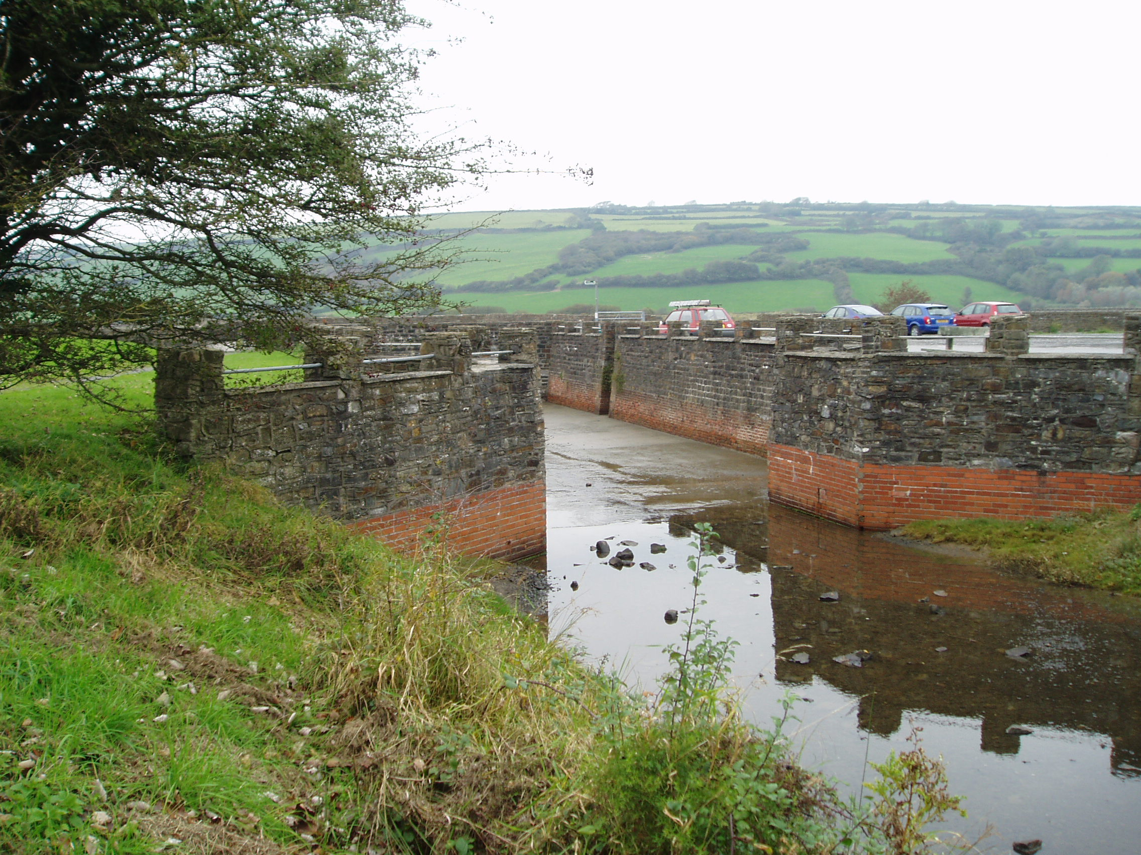 Kymers Dock on the Kidwelly and Llanelli canal, reconstructed in 1990